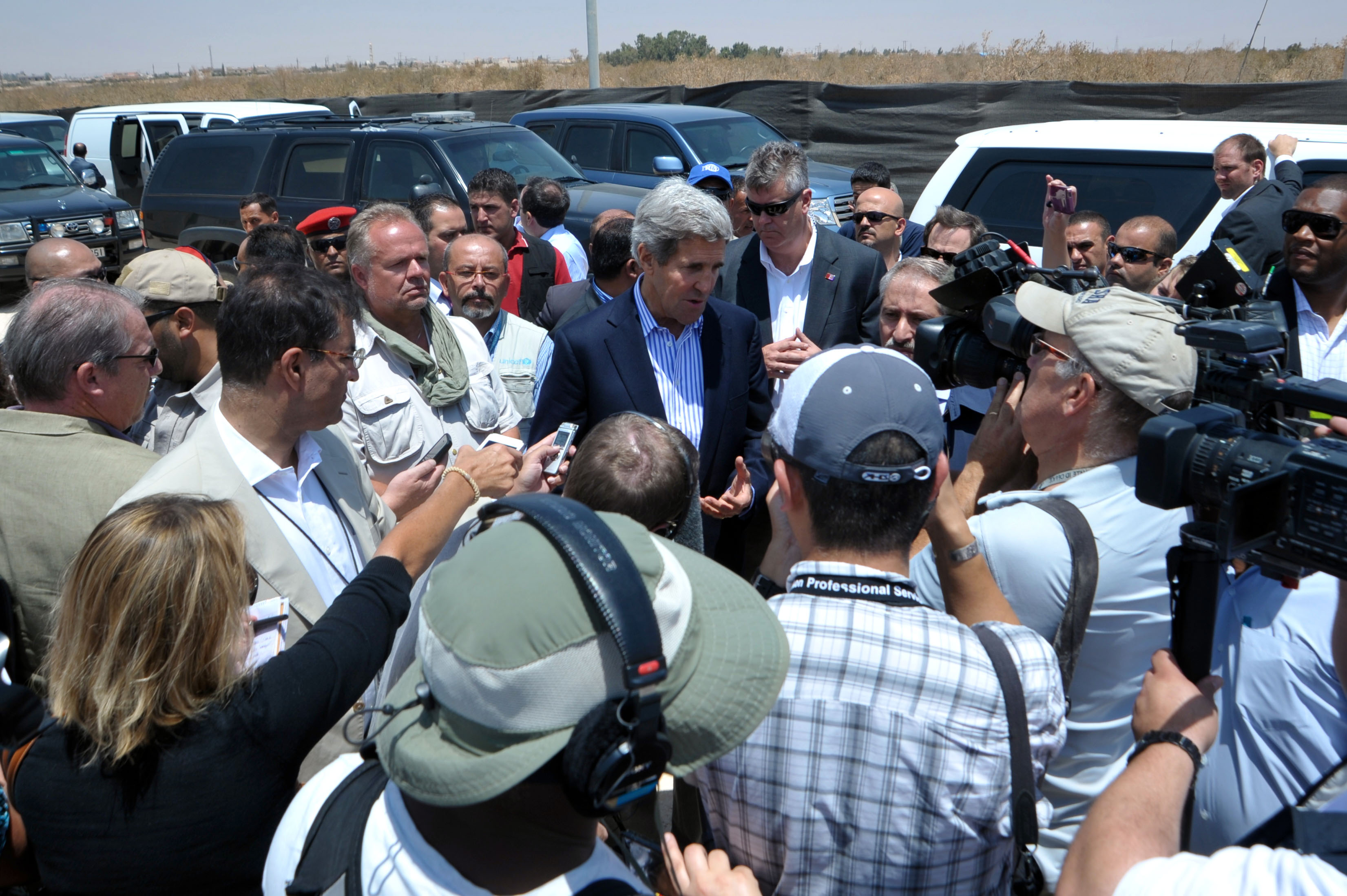 U.S. Secretary of State John Kerry speaks to a crowd of reporters as he concludes his visit to the Za'atri camp for Syrian refugees in Jordan on July 18, 2013. [State Department photo/ Public Domain]